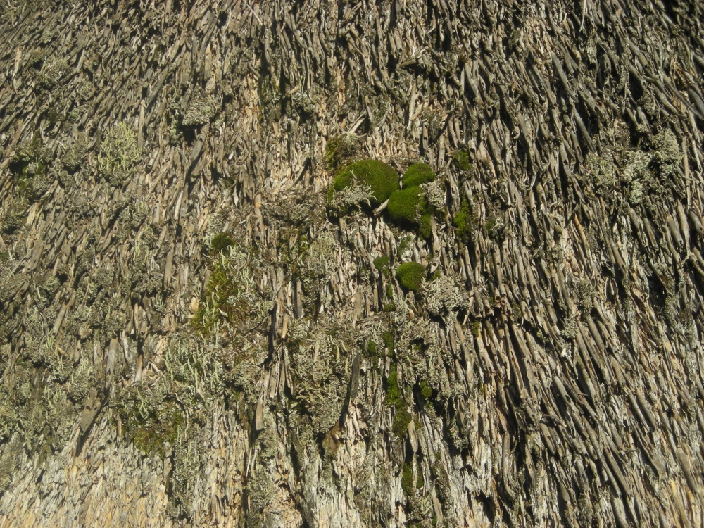 Moss and lichen cover on a thatched roof in Ballenberg, Switzerland.